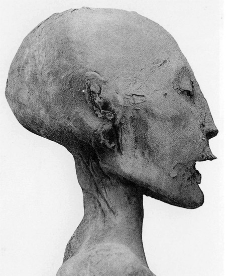 Front view of the "Younger Lady Mummy" found in tomb KV35. This image clearly displays the damage thought to be done by ancient tomb robbers (right arm torn from body, chest caved in) and what is now thought to have been a lethal injury to the left cheek/jaw. Image derived from Grafton Elliot Smith's "The Royal Mummies" (Plate XCIX), which was first published in 1912. The author died in 1937 so the book/image is in the public domain. Recent genetic tests have conclusively demonstrated that this individual was the mother of Tutankhaum. The JAMA eSupplement from Feb. 17, 2010 concludes that "The statistical analysis revealed that the mummy KV55 is most probably the father of Tutankhamun (probability of 99.99999981%), and KV35 Younger Lady could be identified as his mother (99.99999997%)." (eSupplement, p.3).